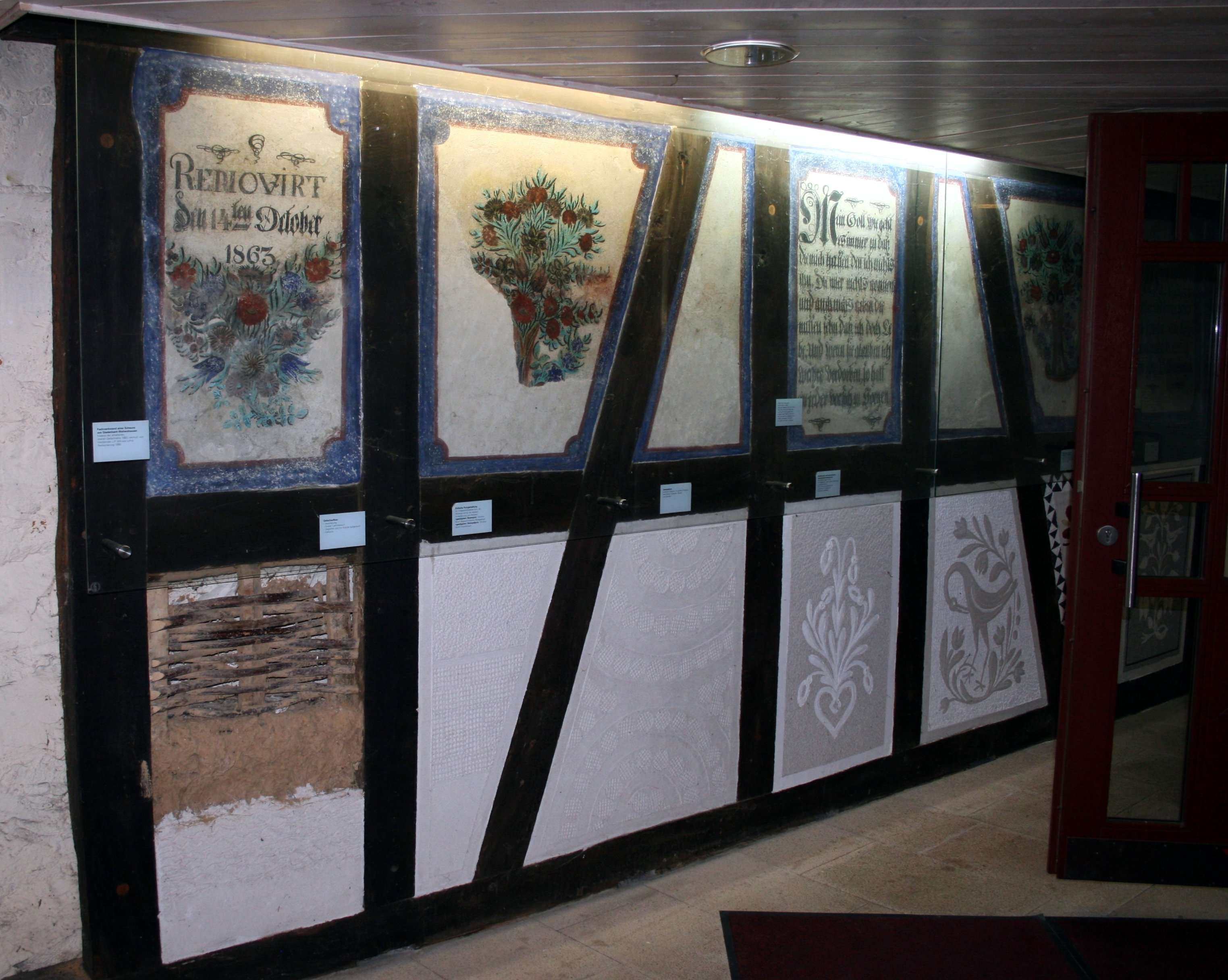 Germany, Hesse, Biedenkopf: Hinterland museum in the biedenkopf castle. At the entrance to the castle restaurant "Schlossterasse" several techniques of sgraffito are presented.